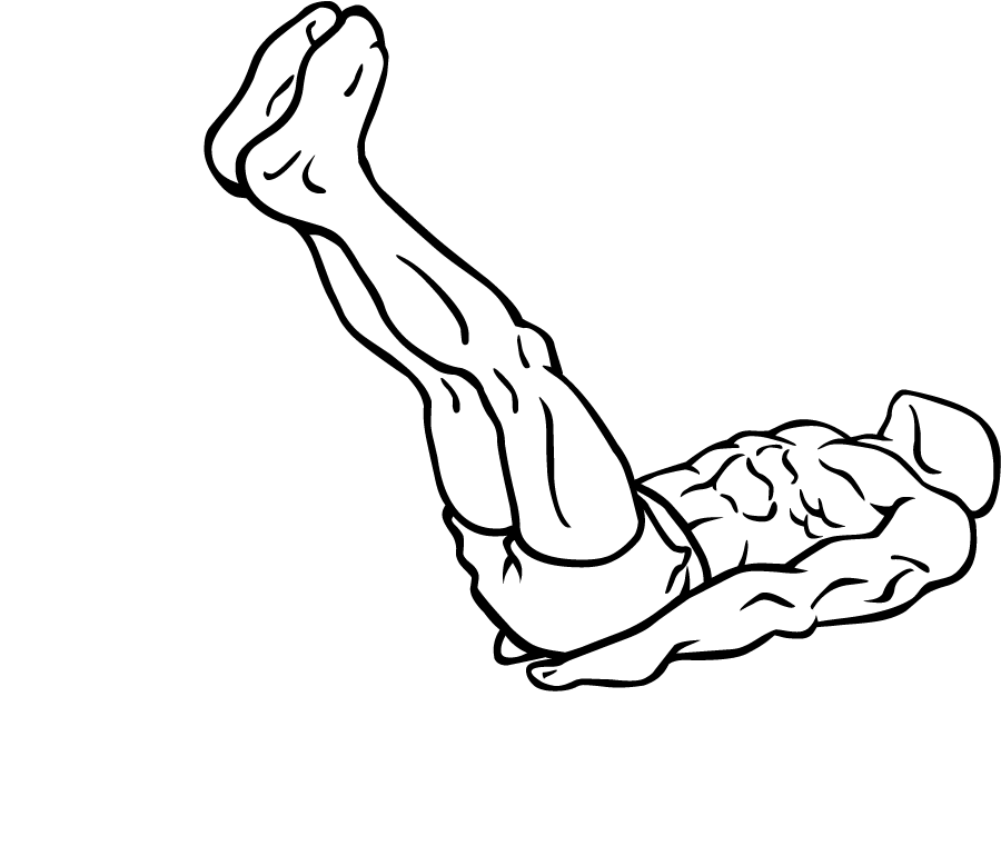 an exercise of abs